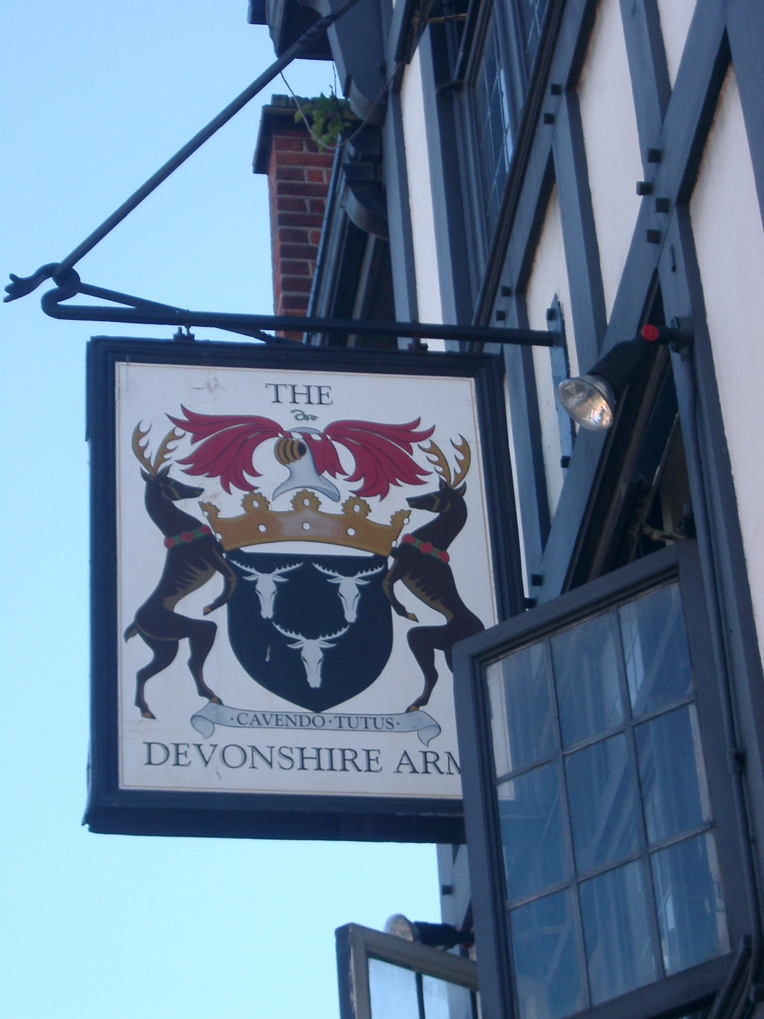 Pub sign in London Camden town with Latin inscription "Cavendo tutus" ("I'll be safe being careful").